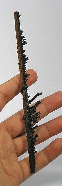 Goethite Locality: Santa Eulalia District, Municipio de Aquiles Serdán, Chihuahua, Mexico (Locality at ) Size: 16.9 x 1.4 x 0.3 cm. A long, slender crystal of gypsum has been entirely replaced by goethite, retaining the form of the gypsum crystal; the center is hollow, and the gypsum appears to be completely gone.